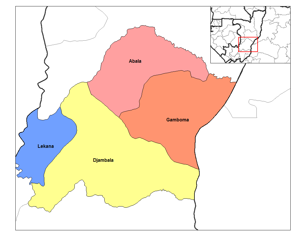 Map of the districts of Plateaux region in the Republic of the Congo. Created by Rarelibra 14:44, 12 September 2006 (UTC) for public domain use, using MapInfo Professional v8.5 and various mapping resources.